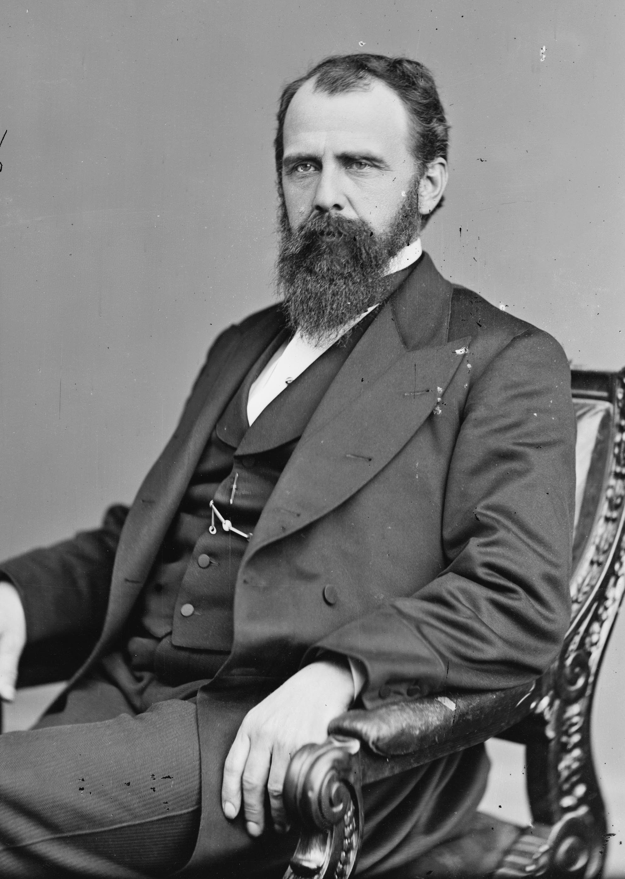 Sobieski Ross. Library of Congress description: "Ross, Hon. Sobrieski of Pa.".